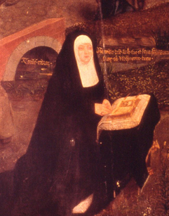 Queen Leonor of Portugal praying in her marvellous Book of Hours, on a flemish painting of Jerusalem offered by her cousin emperor Maximilian I